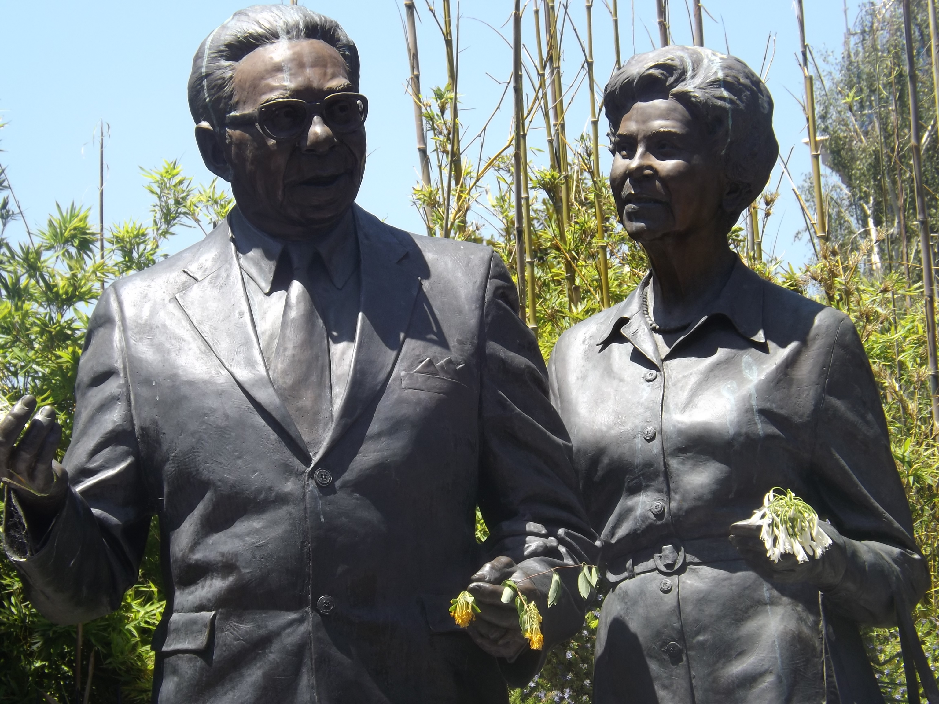 A memorial for Pastor Sir Douglas and Lady Gladys Nicholls, in Parliament Gardens, Melbourne. The memorial says: River People who turned the tide of history and injustice to progress the rights of Aboriginal and Torres Strait Islander peoples. This is the first memorial statue in Melbourne dedicated to two Aboriginal community leaders, Pastor Sir Doug and Lady Gladys Nicholls. They vigorously fought for the rights of Aboriginal and Torres Strait Islander peoples across this country and are an eternal symbol of our ongoing history and commitment to human rights in Australia.